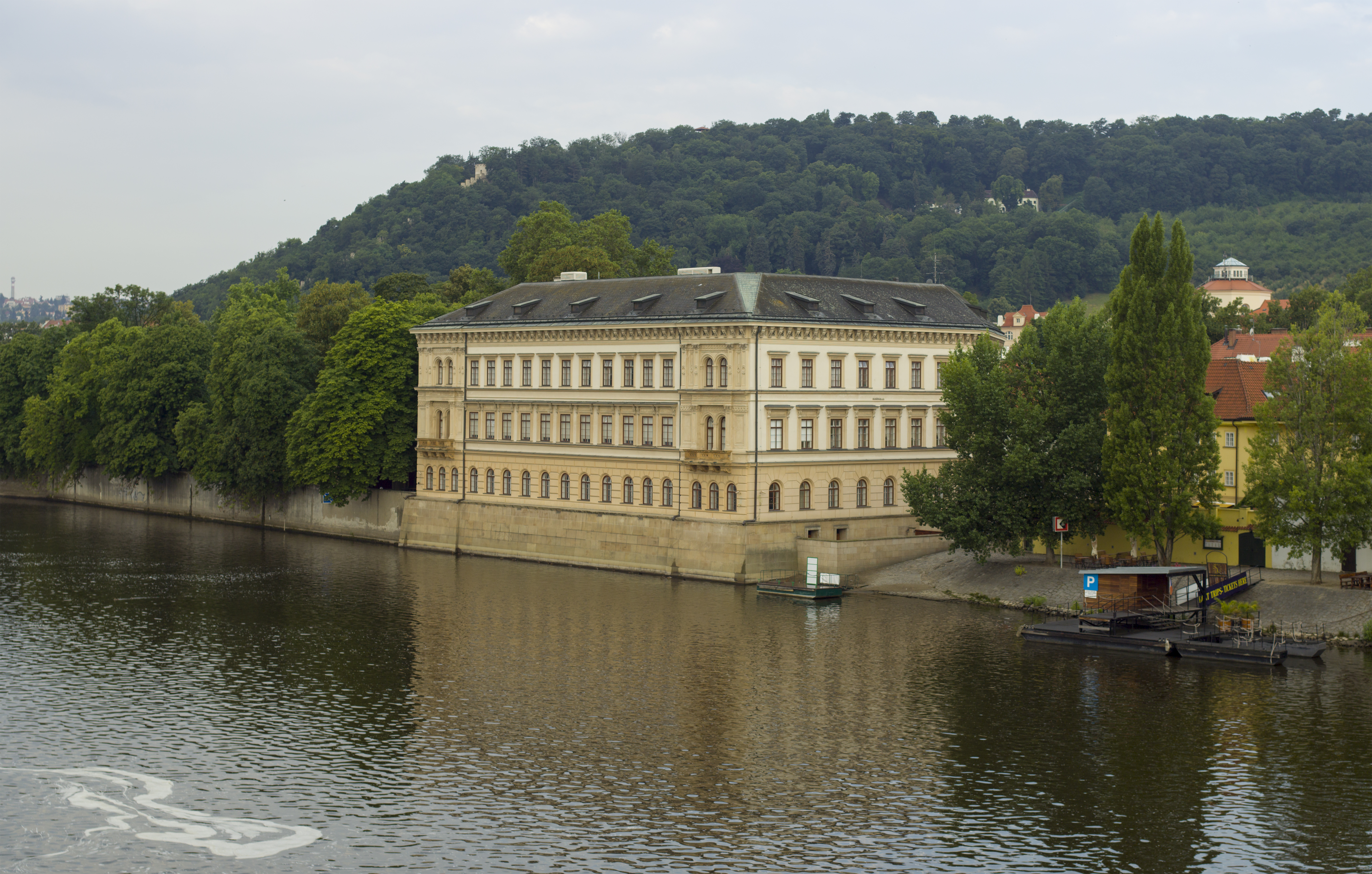 Lichtenstein Palace, Prague (Lichtenštejnský palác